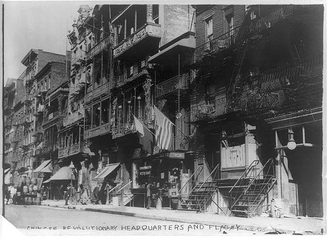 The Young China Association headquarters on the second floor of 12 Mott Street in New York City flying the flag of the Chinese revolutionary movement. The headquarters are above the Boston Cigar store, to the right of the Flowery Kingdom Restaurant and to the left of Morning Star Mission facilities.